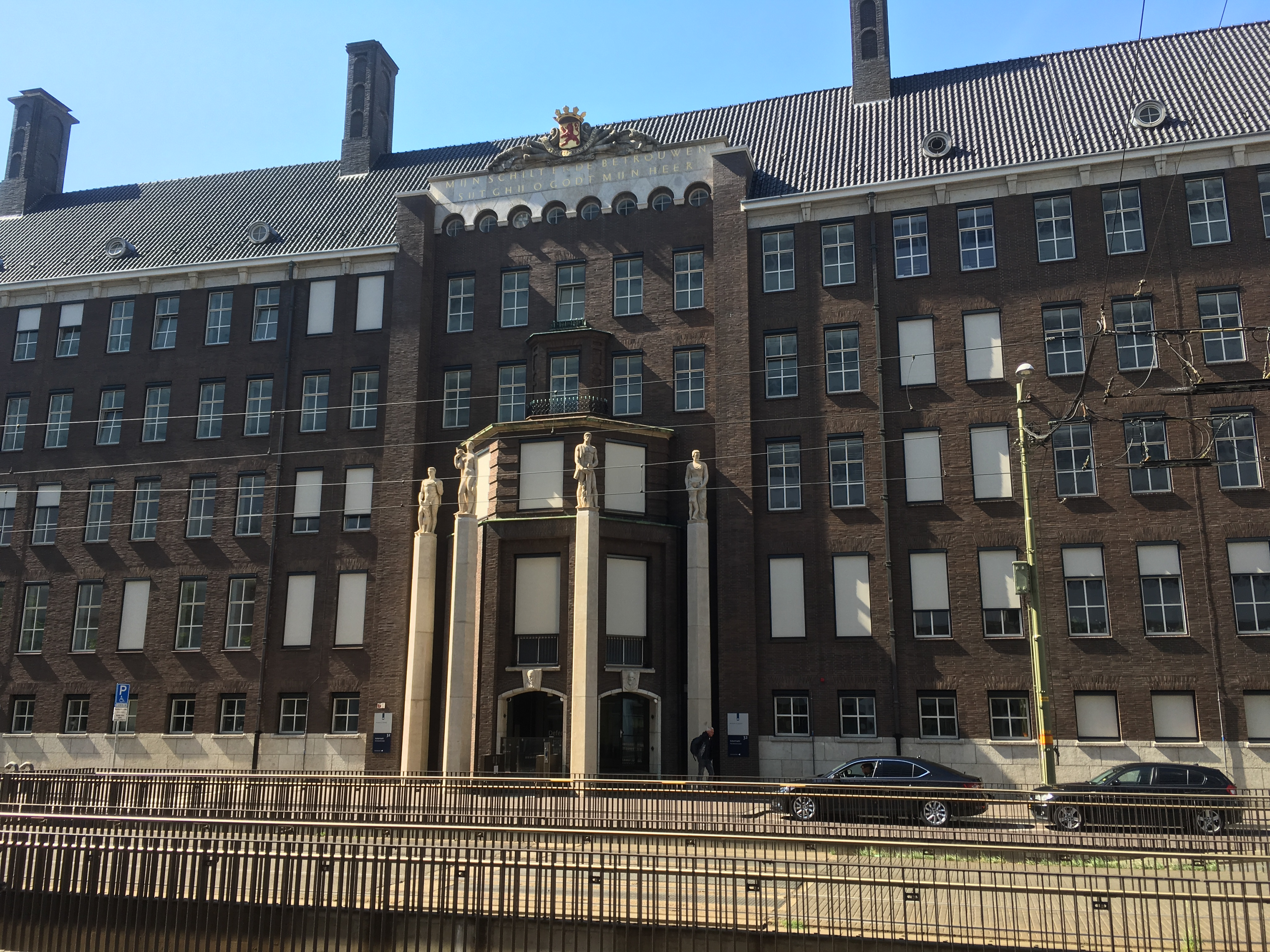 Ministry of Defense, Kalvermarkt 32, The Hague